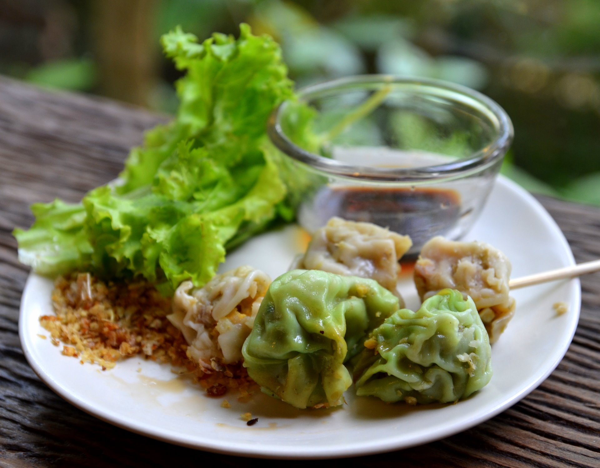 Khanom chip (Thai script: ขนมจีบ): the Thai version of the Chinese steamed dumplings called siumai in Cantonese. The colour indicates the filling: the green dumplings contain a mix of minced pork and crab meat, the others have a filling of only minced pork. It is served with deep-fried chopped garlic, some fresh greens and herbs such as coriander, and with Chinese black vinegar. This particular dipping sauce is a mix of Chinese black vinegar and mushroom sauce.